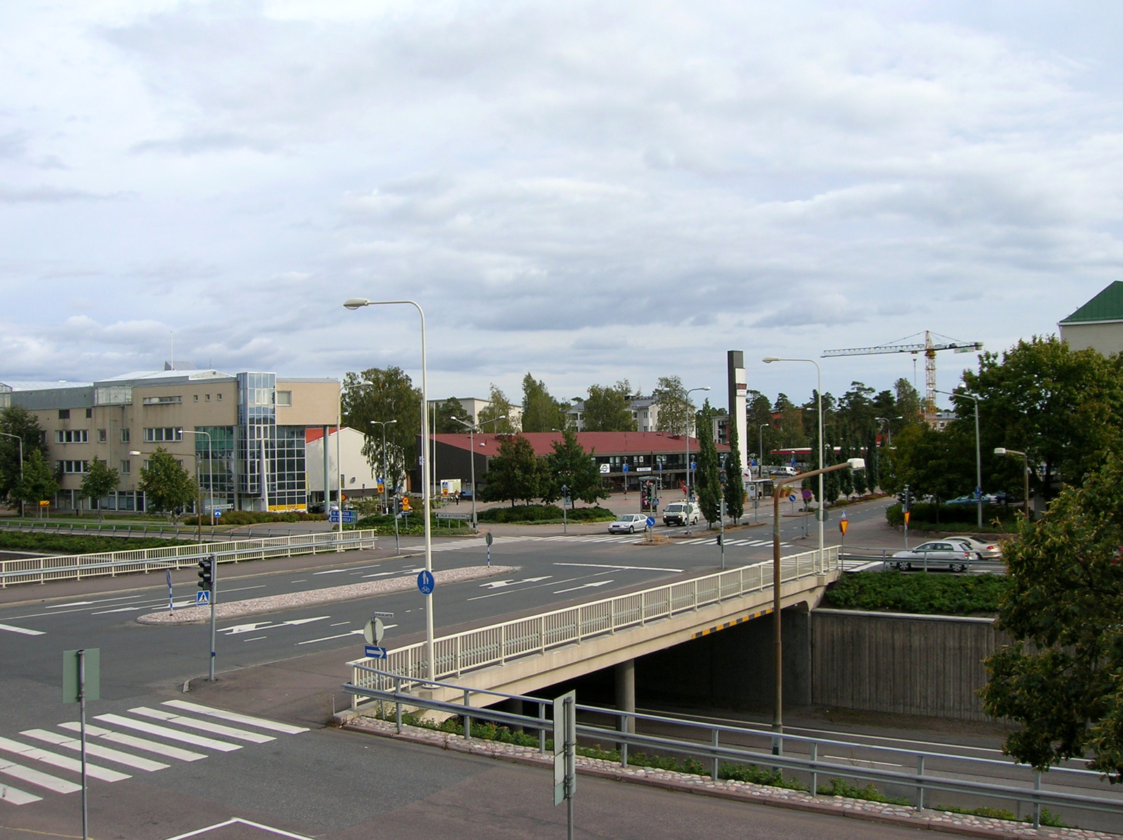 A view of central Karhula, a district of Kotka, Finland